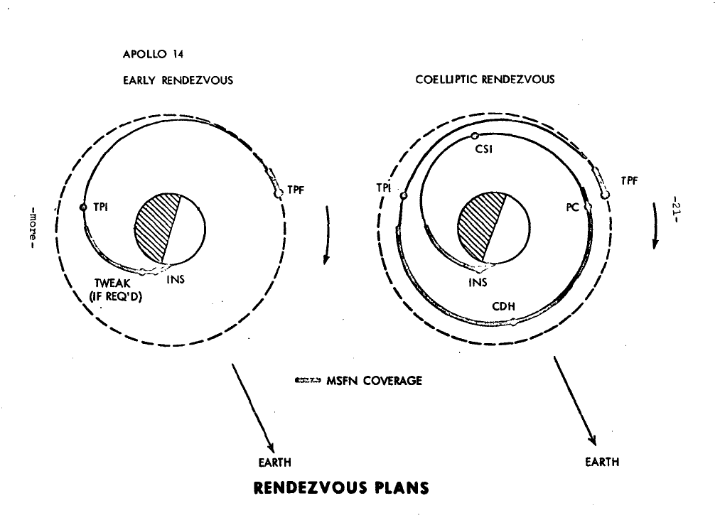 Apollo 14 new rendez-vous plan